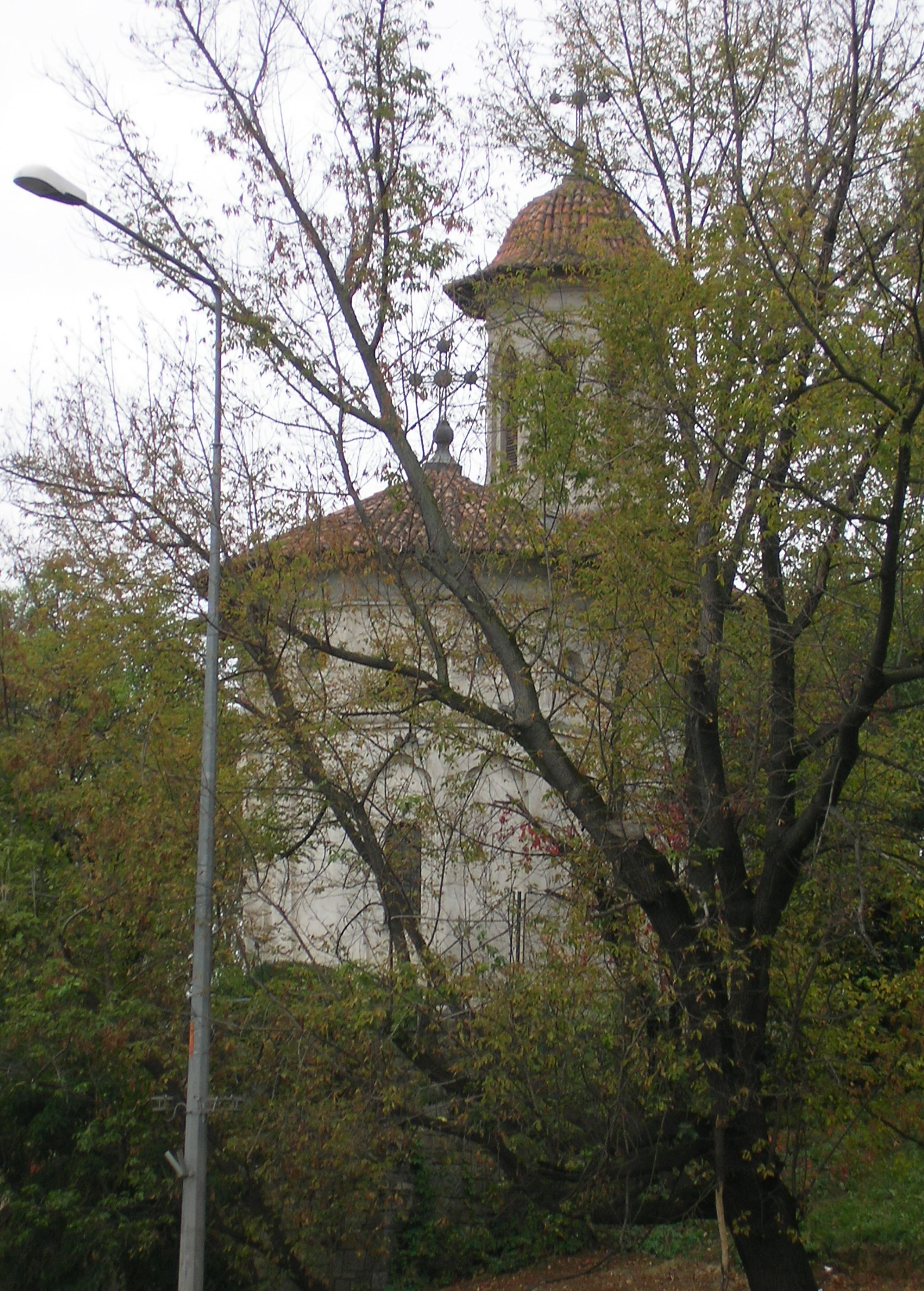 Romanian Orthodox church in Băneasa, Bucharest, on the way to Fântâna Mioriţa (down the Bucharest-Ploieşti Highway)